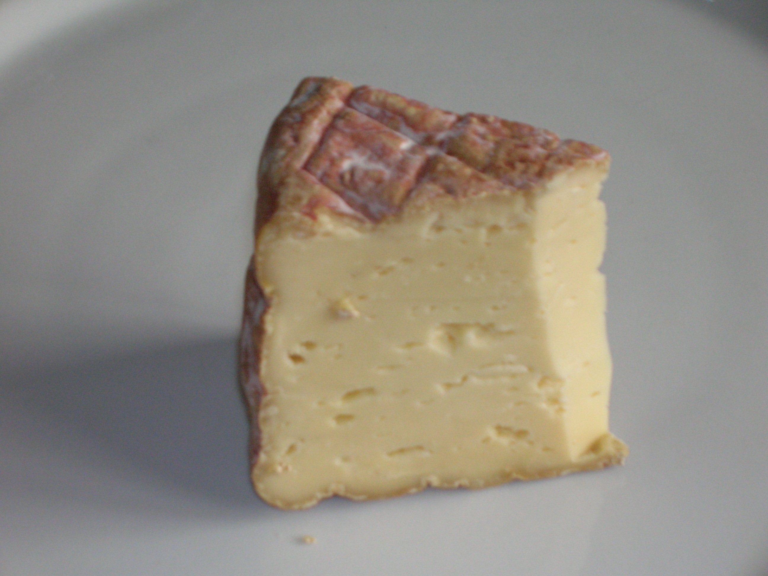 6 month old Bethmale cheese.